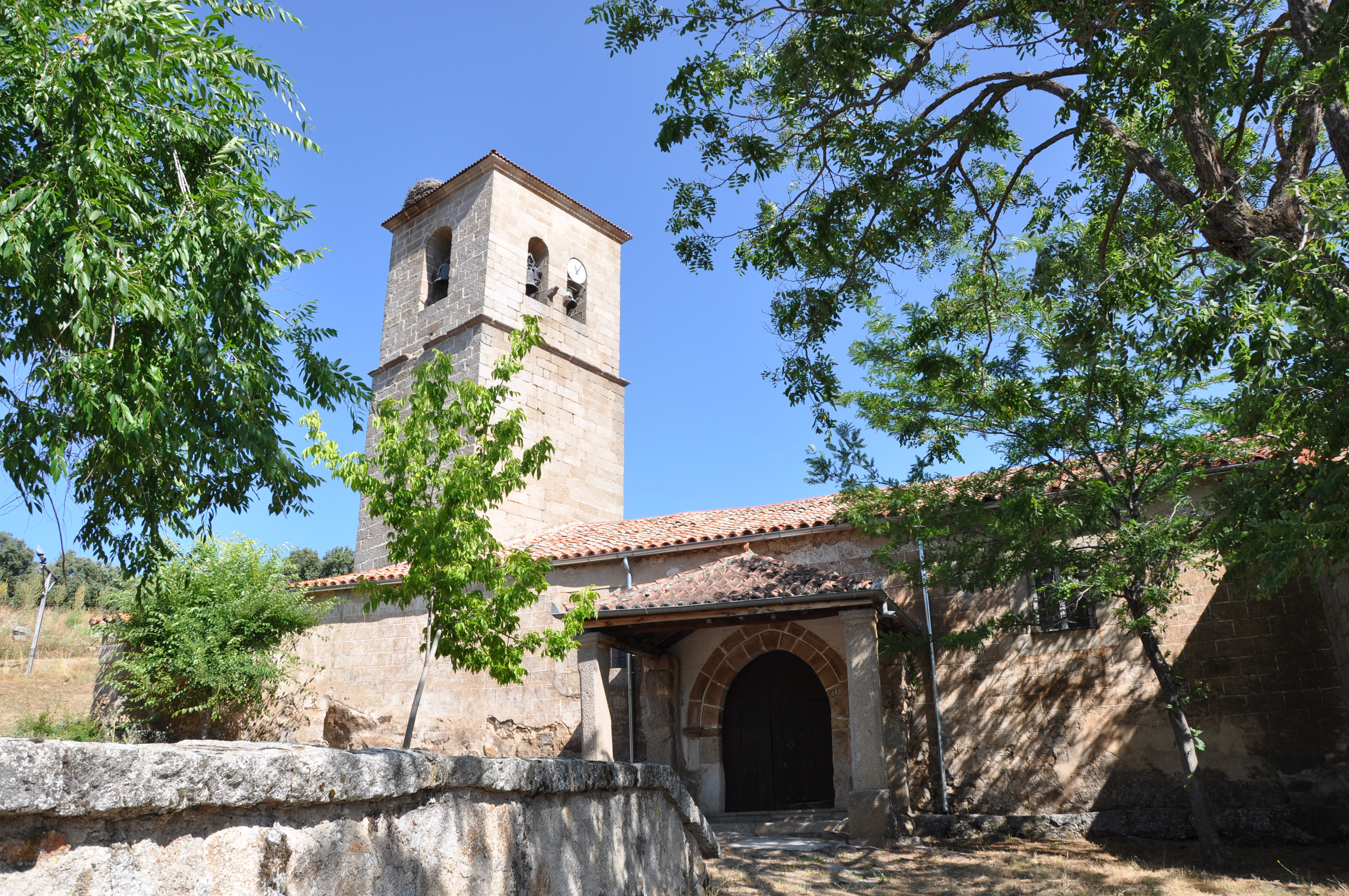 Parish Church of Santa Marina, Gilbuena, Ávila, Spain